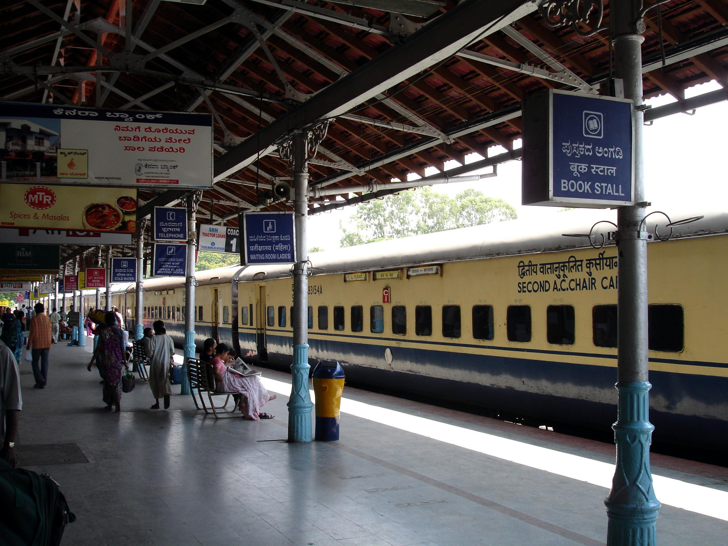 Shatabdi Express, standing in the Mysore railway station in India